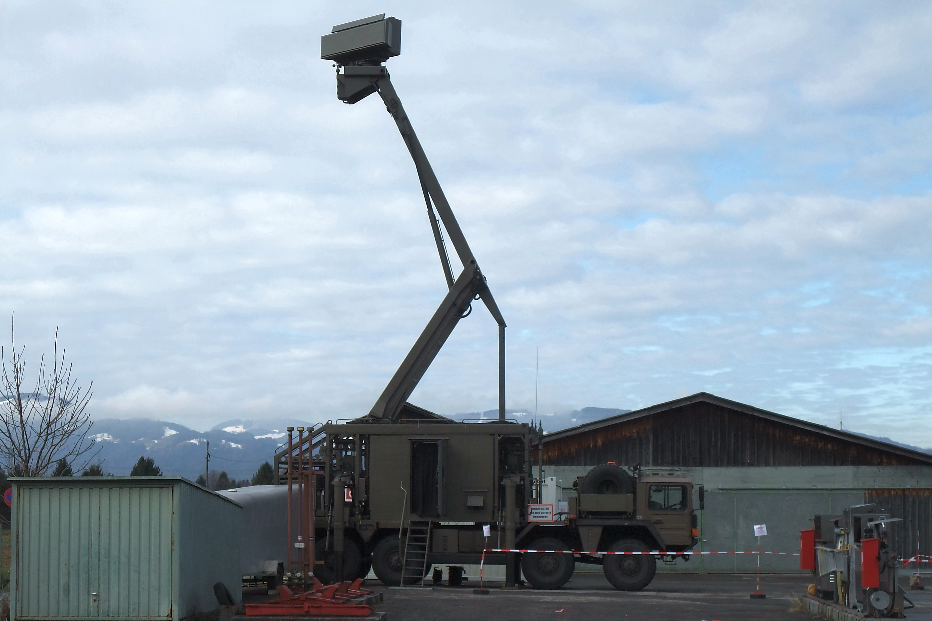 Operation Dädalus 12. During the World Economic Forum (WEF) in Davos, 5 mobile Thomson RAC-3D compact radar positions monitor the airspace in Vorarlberg and Tirol as gap fillers. That's the counterpart of the Swiss TAFLIR radar stations. Hohenems, Austria, Jan 25, 2012; ITU-classificatio: Radiolocation land station in the radiolocation service..